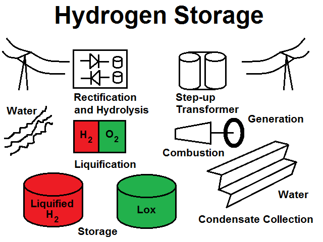 Schematic of utility scale hydrogen storage. It is less efficient than pumped-hydro storage, but takes up less area, and is not size limited.